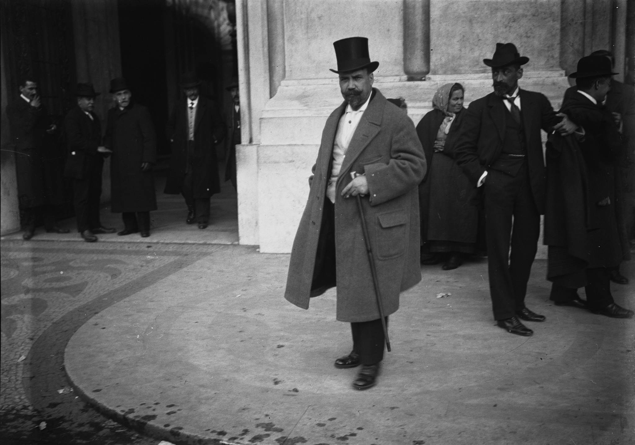 António Luís Gomes, cabinet minister of Portugal. 1911.